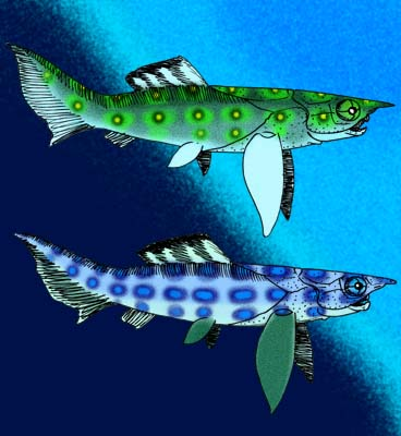 Reconstruction of the camuropiscid arthrodire placoderms Camuropiscis laidlawi (top), and C. concinnus, from the Gogo Reef of Late Devonian Australia